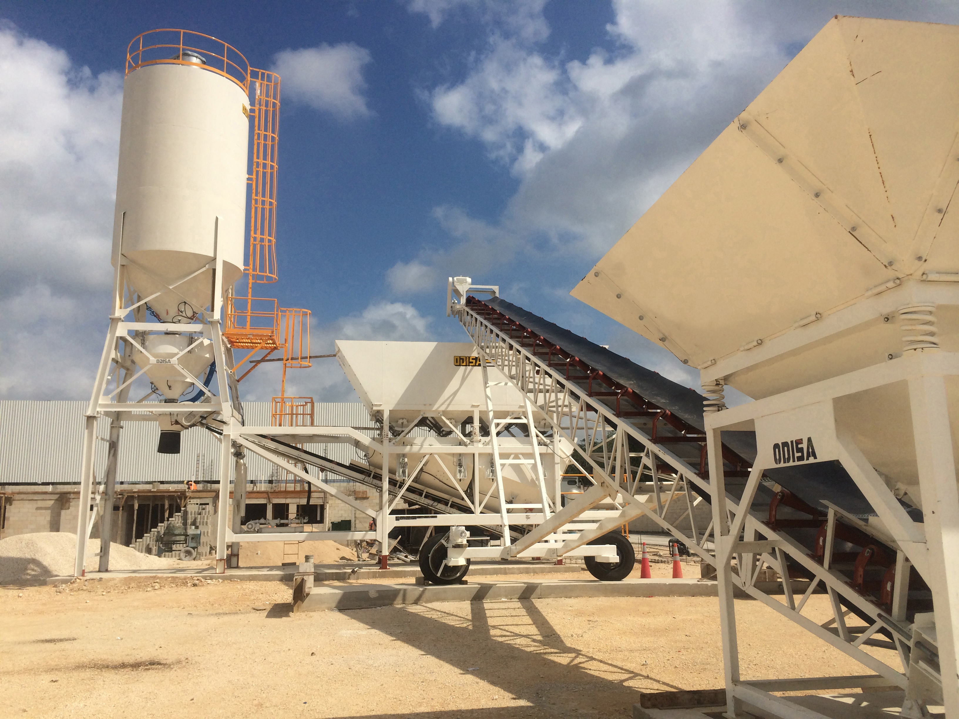 12 cuyd concrete batch plant with 40 Ton gravity silo, 2 batchers, aggregate storage and radial stacker. Product of Odisa company of Hidalgo, Mexico.